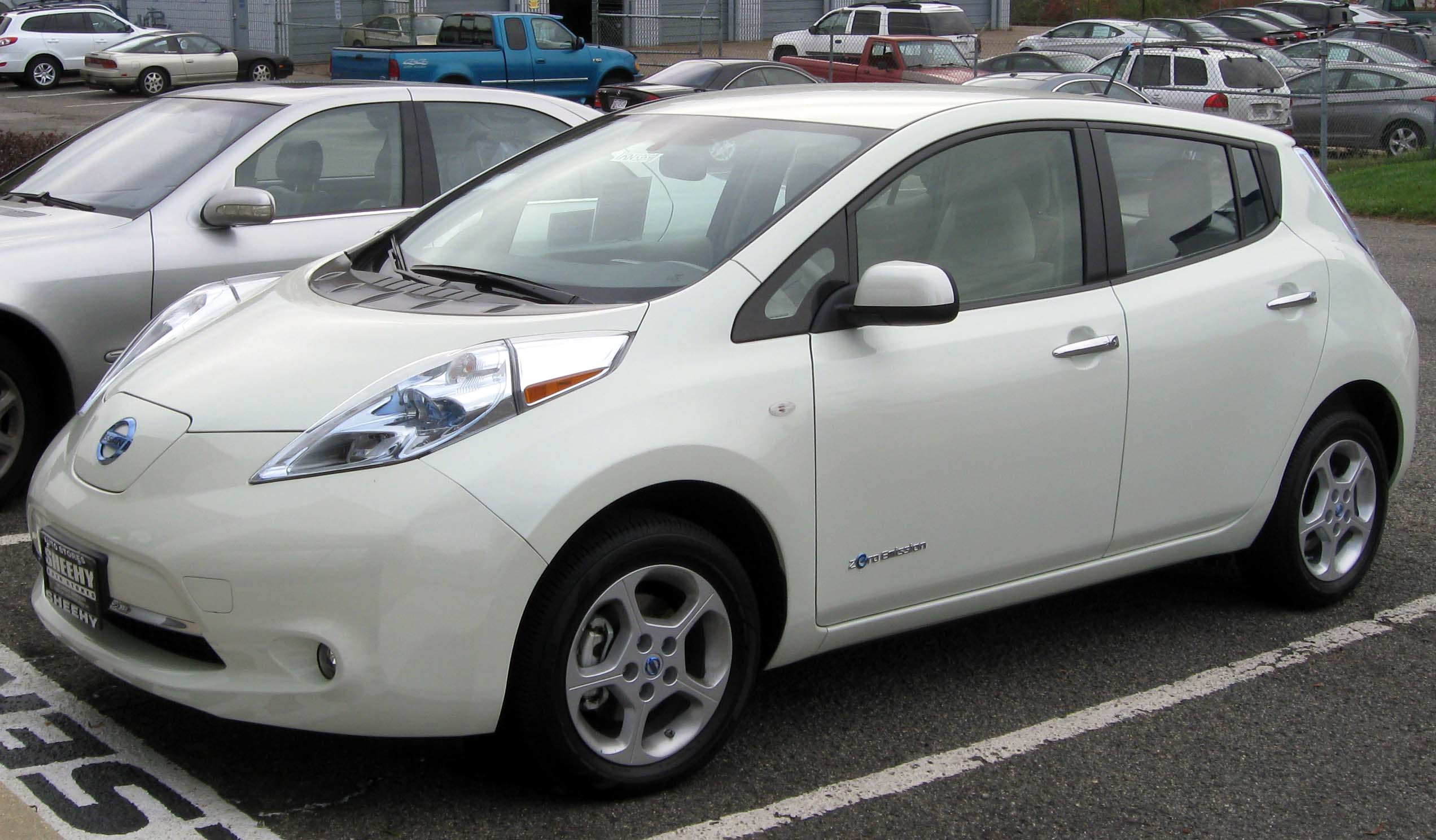 2011 Nissan Leaf photographed in Waldorf, Maryland, USA.